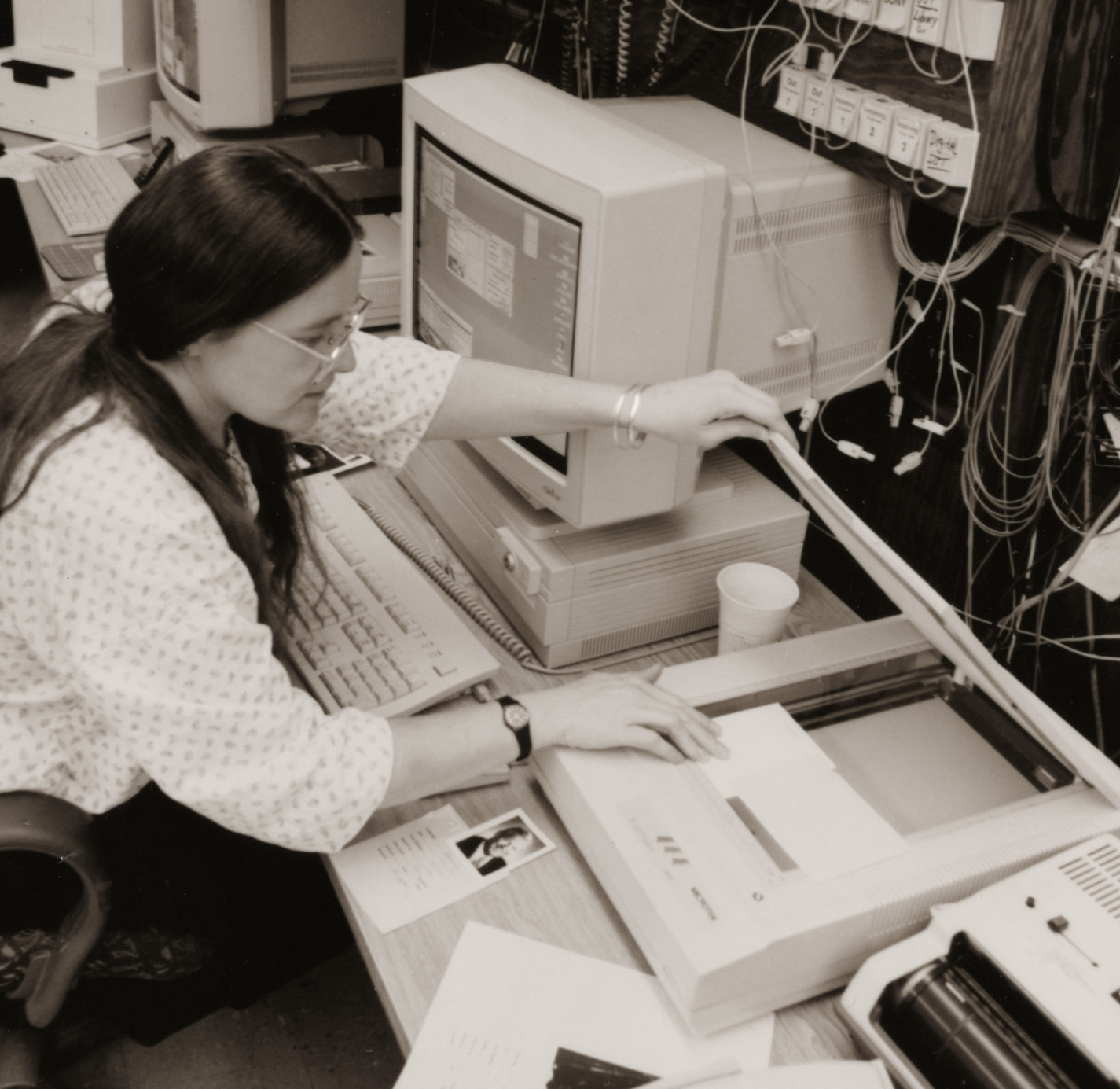 Photo desk at The Detroit News, about 1993. When digital photos were a novelty and PhotoShop 2.0 was edgy. Oh, yes, and in those days, Detroit newspapers published a print edition every day.